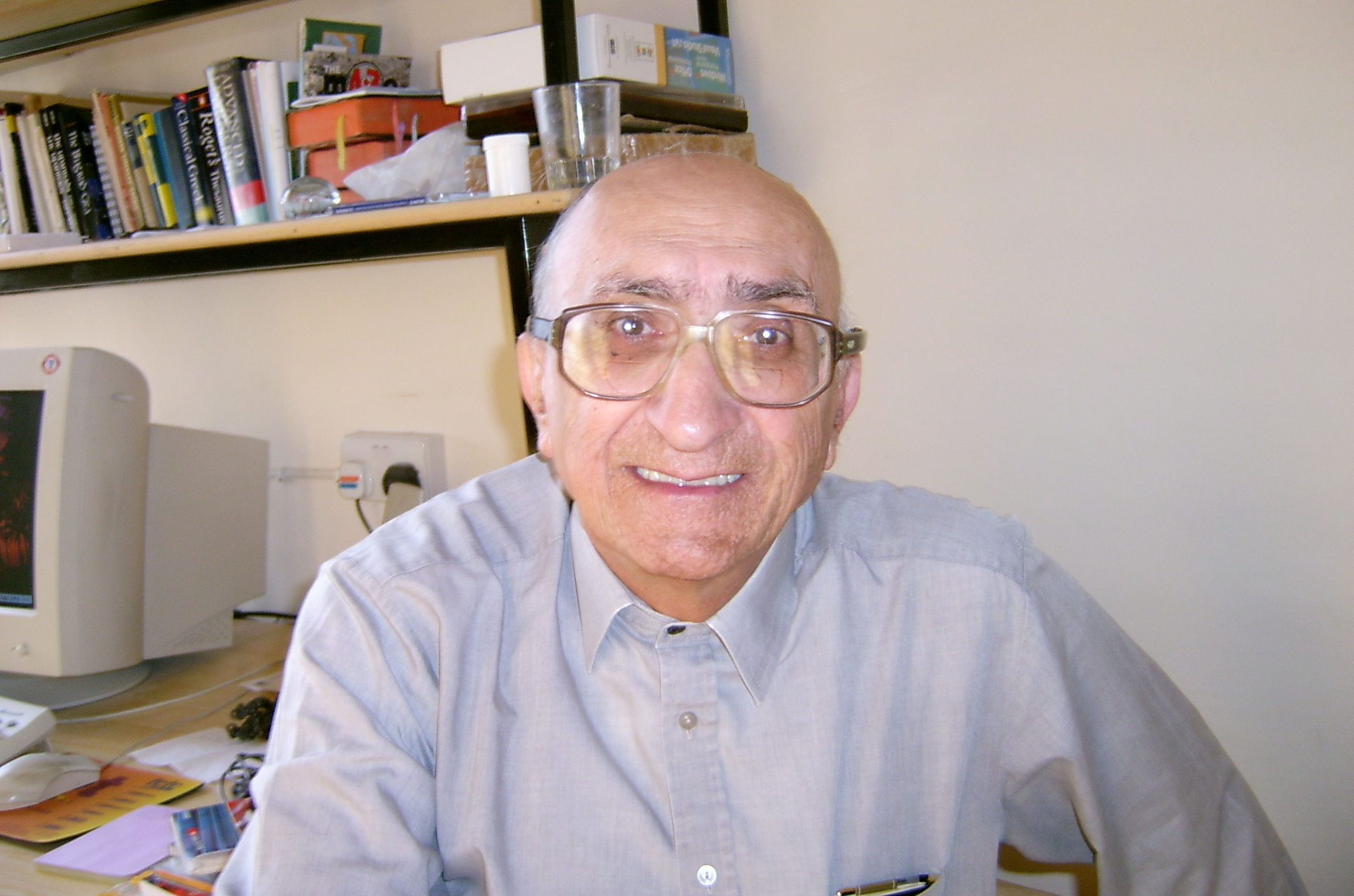 Prof Salvino Azzopardi SJ, Jesuit priest and philosopher at Jnana- Deepa Vidyapeeth, Pune, India. He was originally from Malta.